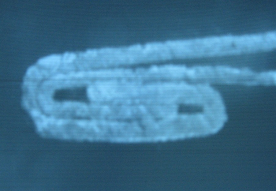 Can seam, real size is 3 millimeter